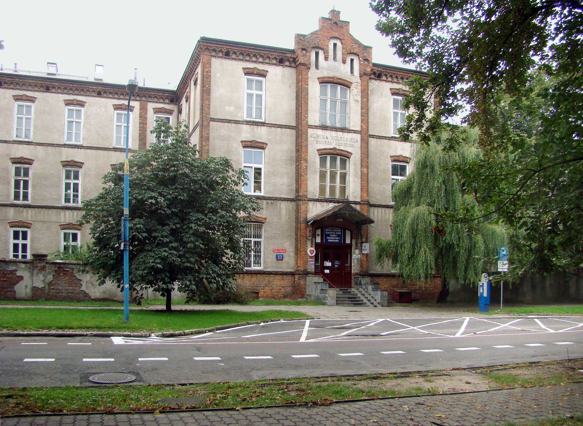 Old Maternity Clinic, Warsaw